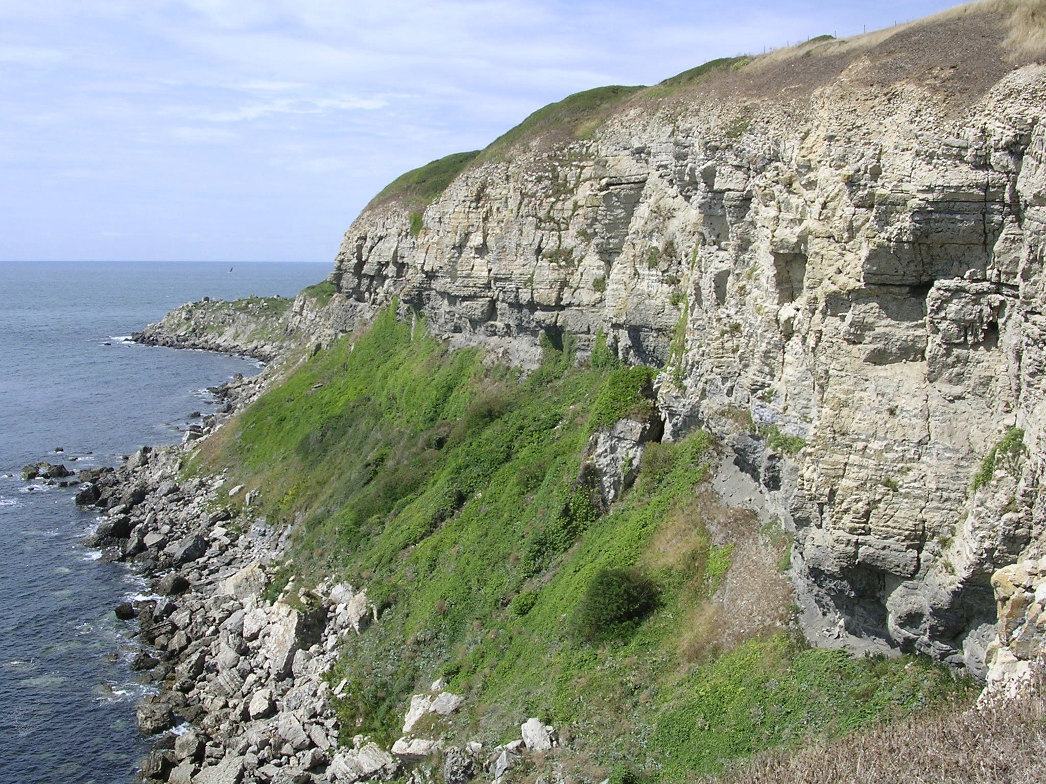 Sandstone cliffs immediately to the east of St Albans Head, looking west from the Coast Path